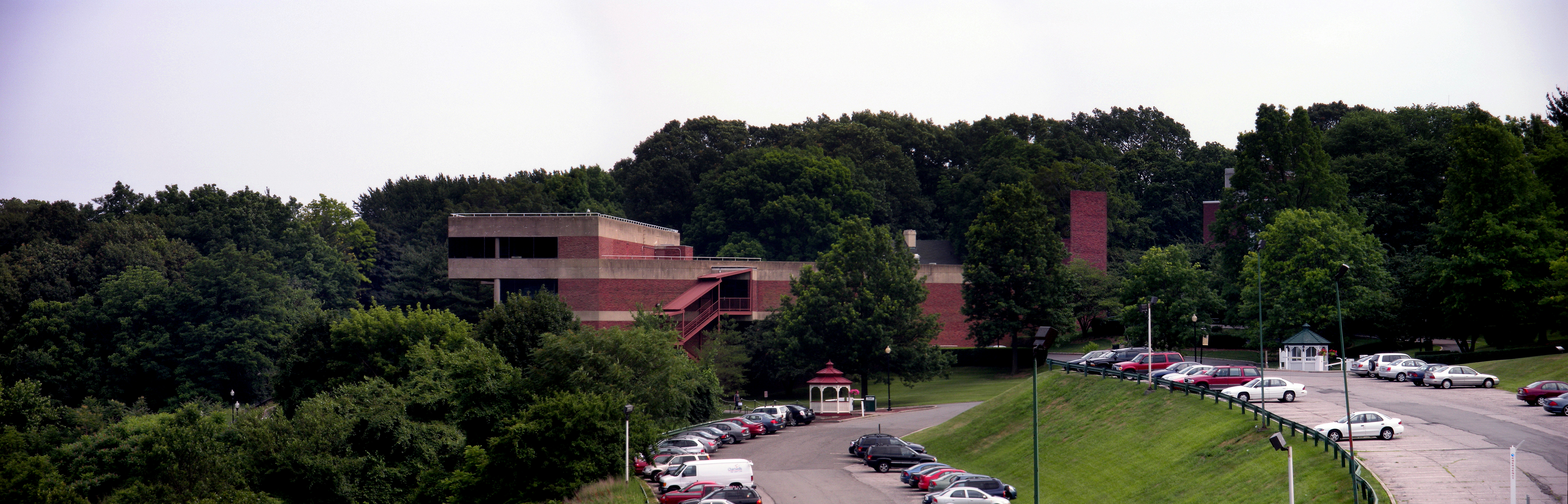 A sharpened photo of Wagner College from its left side. Picture taken from the other side of the college's parking lot. Photo is a panorama, so preview of photo is distorted.